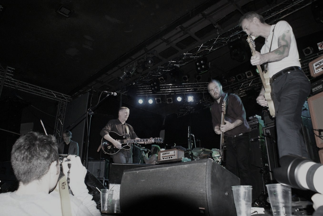 The Swans - Live in Warsaw 10 december 2010, Poland